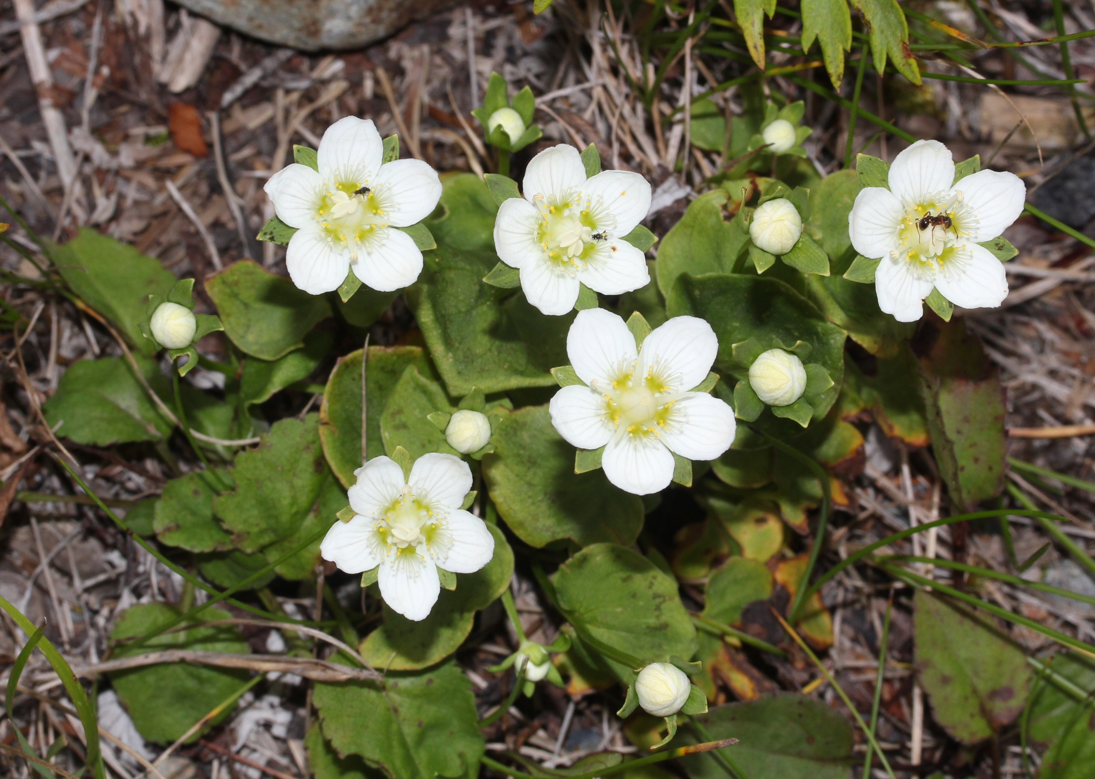 Parnassia palustris L. var. palustris in Mount Ontake, Ōtaki, Nagano prefecture, Japan.